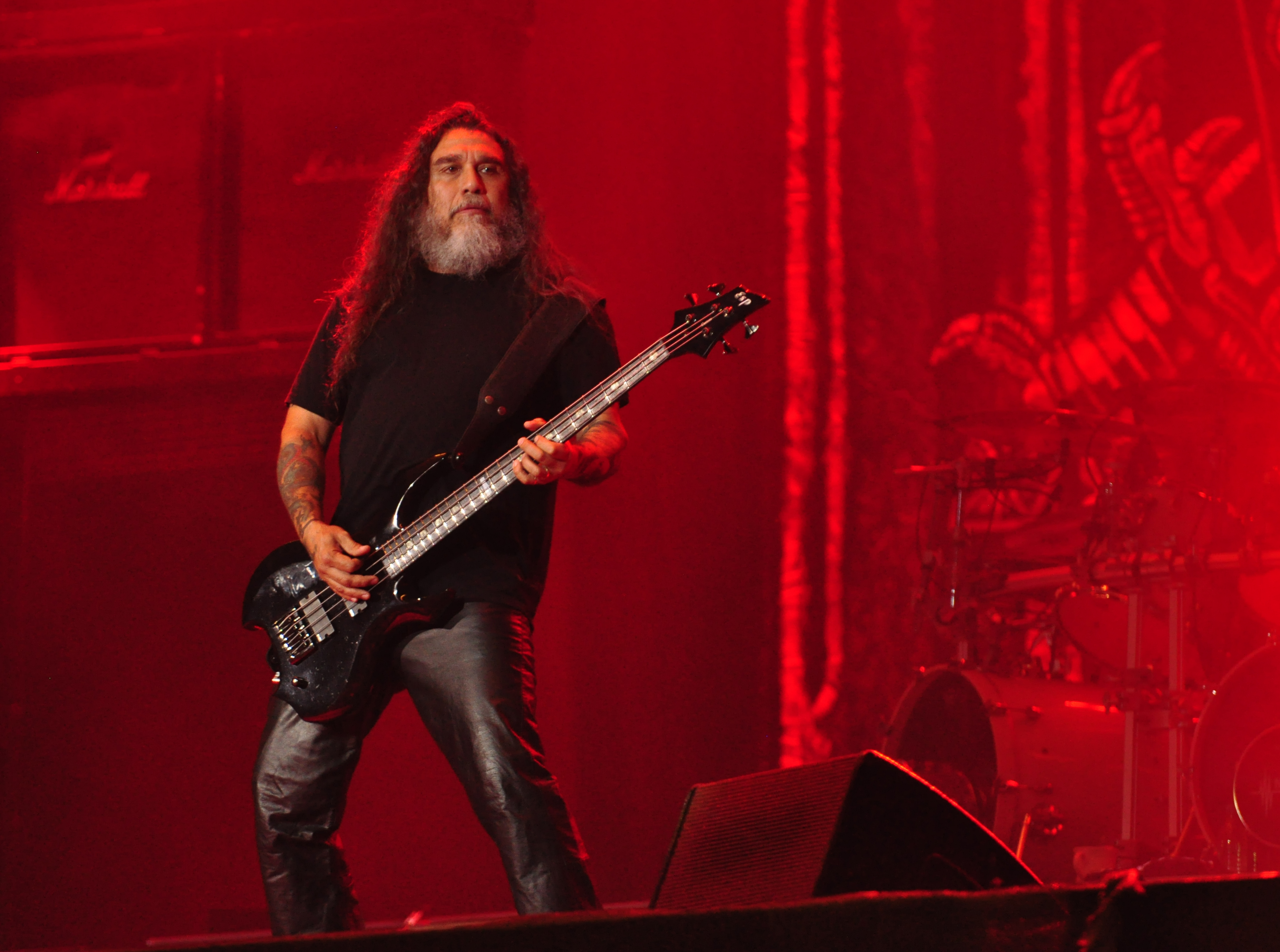 Slayer at Wacken Open Air 2014